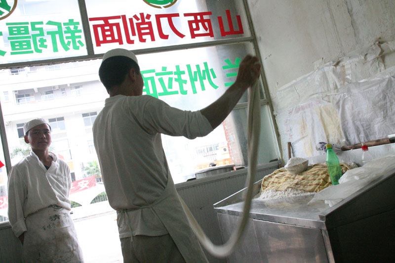 Photographed by Kenneth Chan.